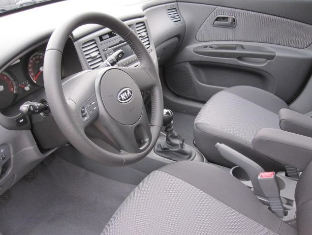 Interior of the newest Kia Rio II